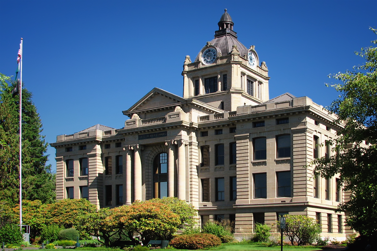 Grays Harbor County Courthouse (Montesano, Washington)